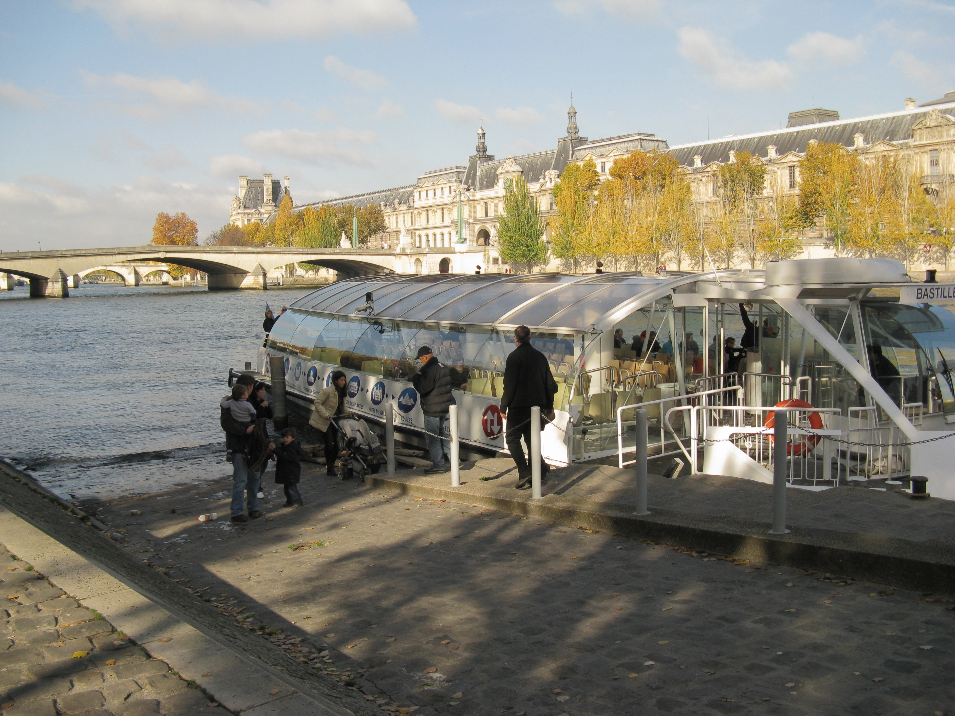 The Louvre museum as seen from the river Seine and bus boat in Paris, France.